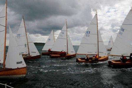 Dublin Bay Mermaids starting race at National Championship 2008 hosted by Rush Sailing Club